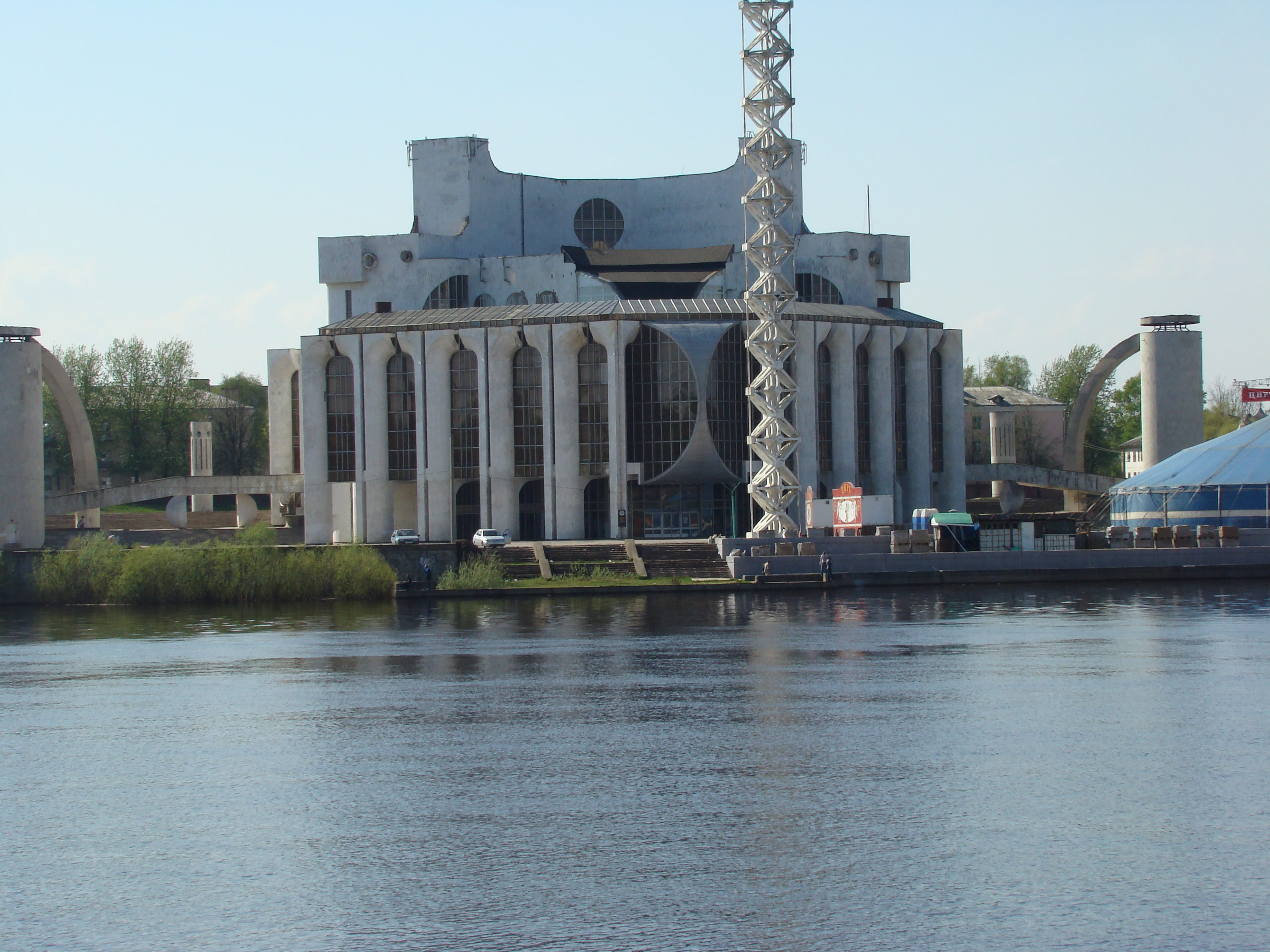 Theatre (Velikiy Novgorod)